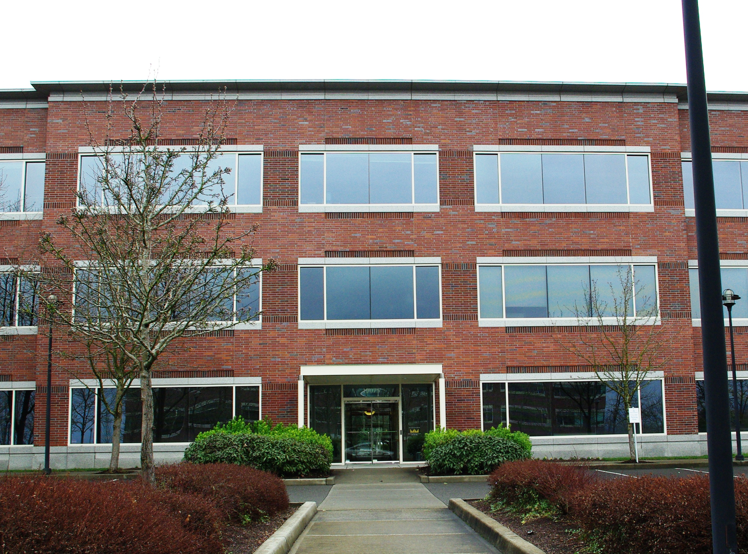 Office building in the Tanasbourne area of Hillsboro, Oregon. Includes the corporate offices of ZoomCare.